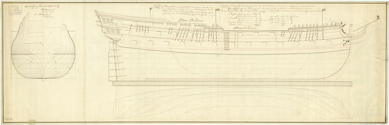 Dictator (1783); Sceptre (1781) Scale: 1:48. Plan showing the body plan, sheer lines, and longitudinal half-breadth for building Dictator (1783), and in February 1779 for Sceptre (1781), both 64-gun, Third Rate, two-deckers. The design was similar to the 74-gun Albion (1763). Signed by John Williams [Surveyor of the Navy, 1765-1784] and Edward Hunt [Surveyor of the Navy, 1778-1784]. Dictator (1783); Sceptre (1781)